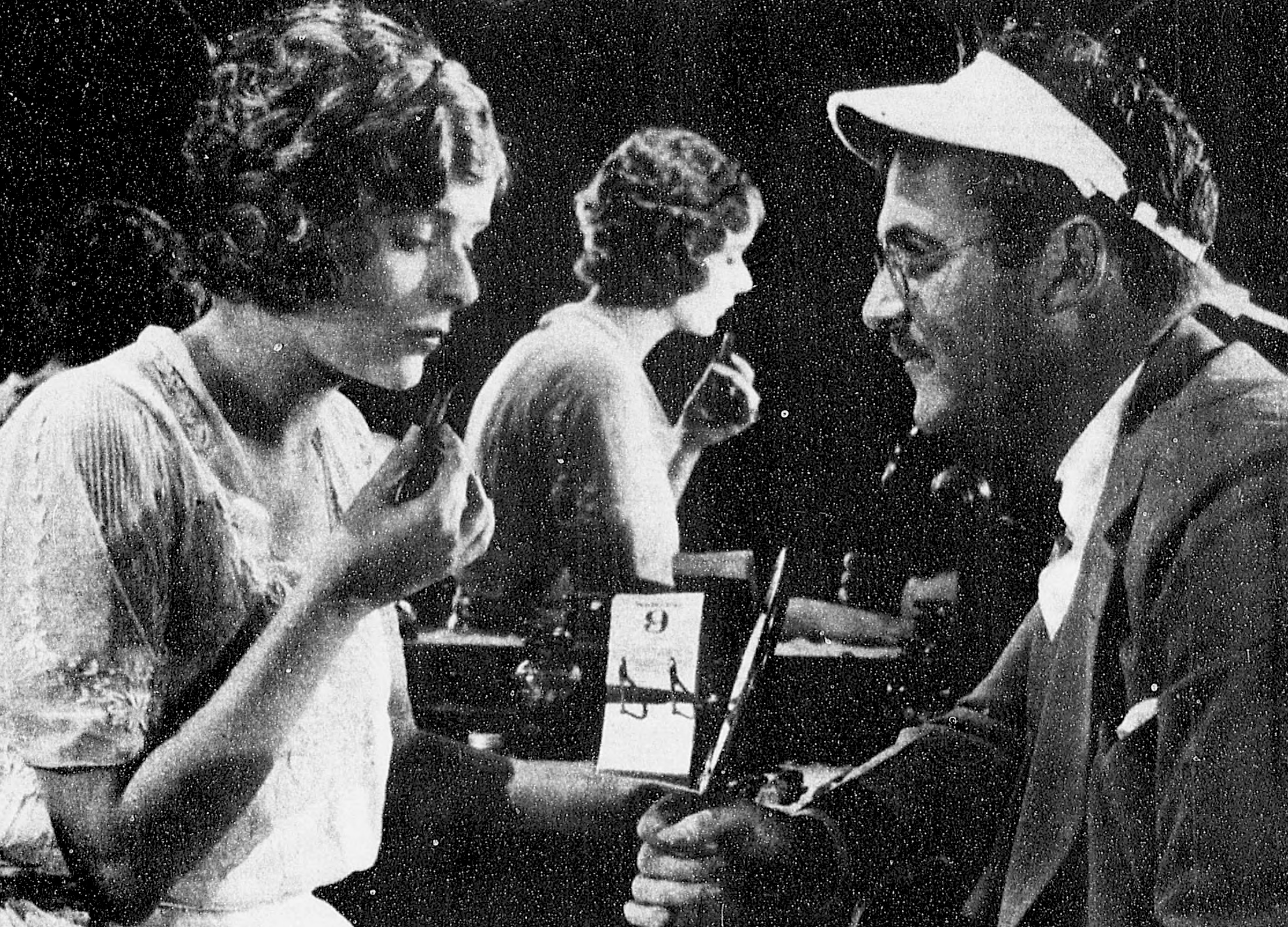 Original caption:"Newlyweds of the screen. Marshall Neilan pictured assisting his wife (Blanche Sweet) make up at the Goldwyn Studio for her forthcoming production The Strangers' Banquet, which marks her return to the screen after two years' absence caused by illness." For the 1922 film.